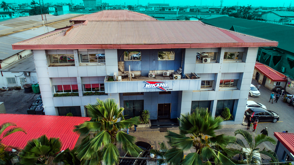 Mikano International Limited, Head Office is located at Plot 34/35, Acme Road, Ogba, Ikeja, Lagos.